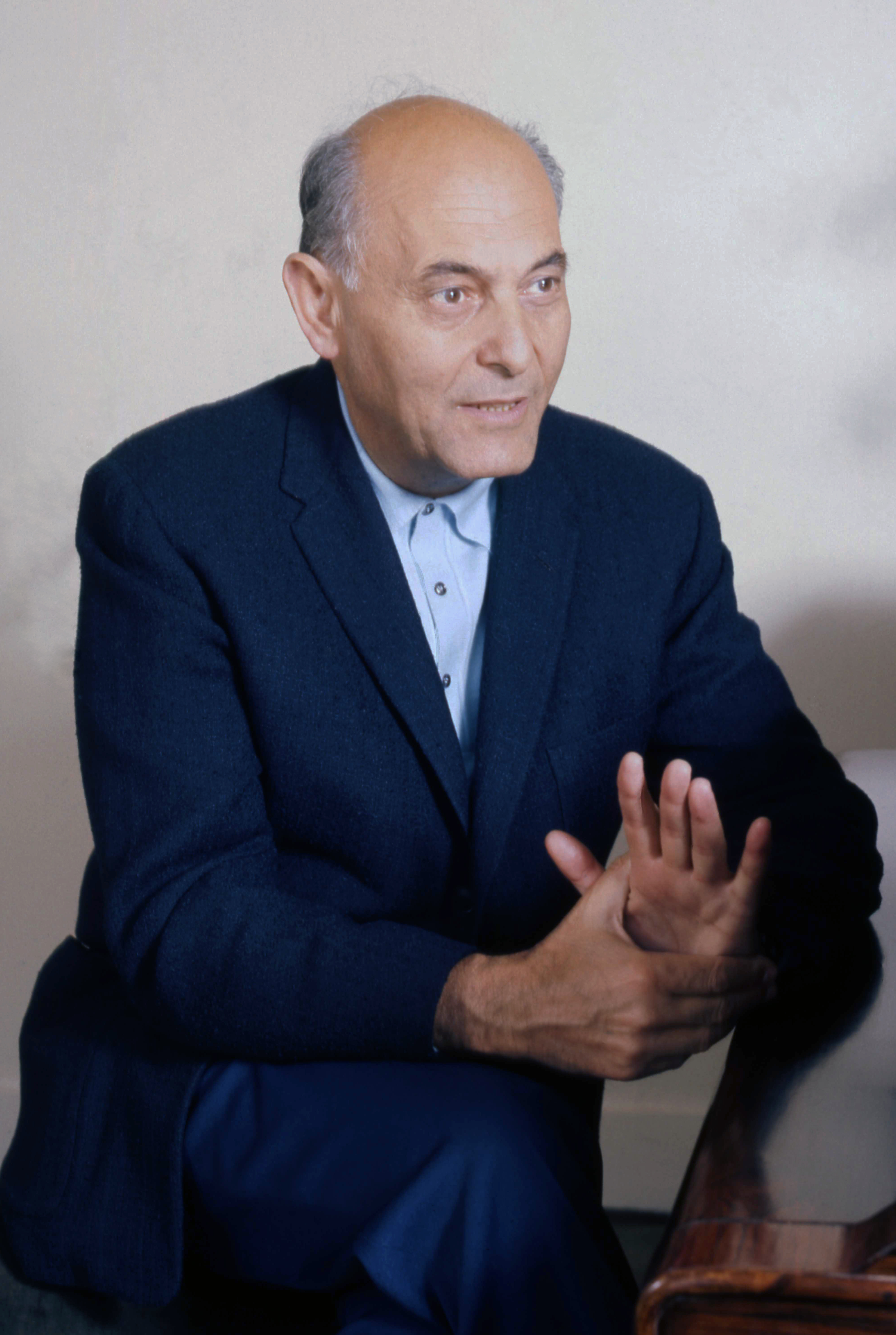 Sir Georg Solti